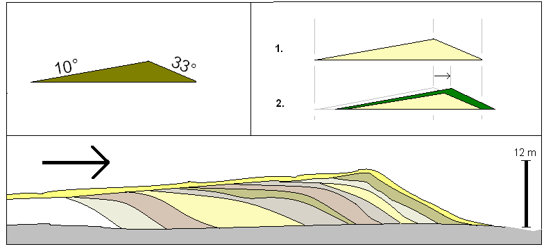 Character, inside texture and movement of a transverse dune